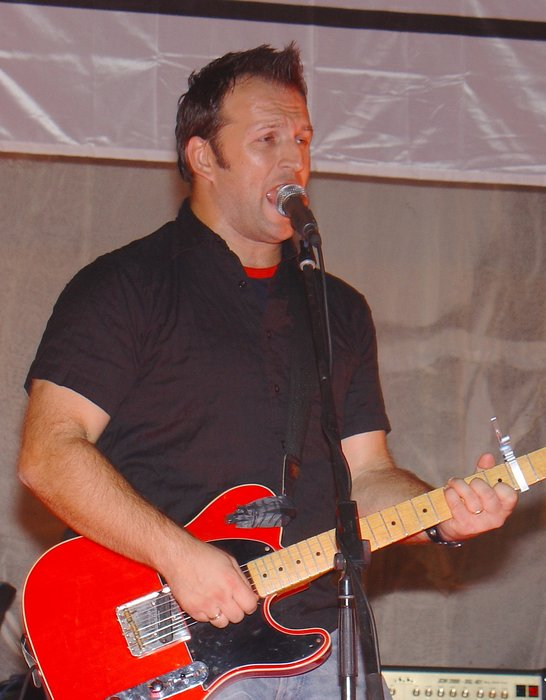 Paul Colman in J-Festu in year 2005